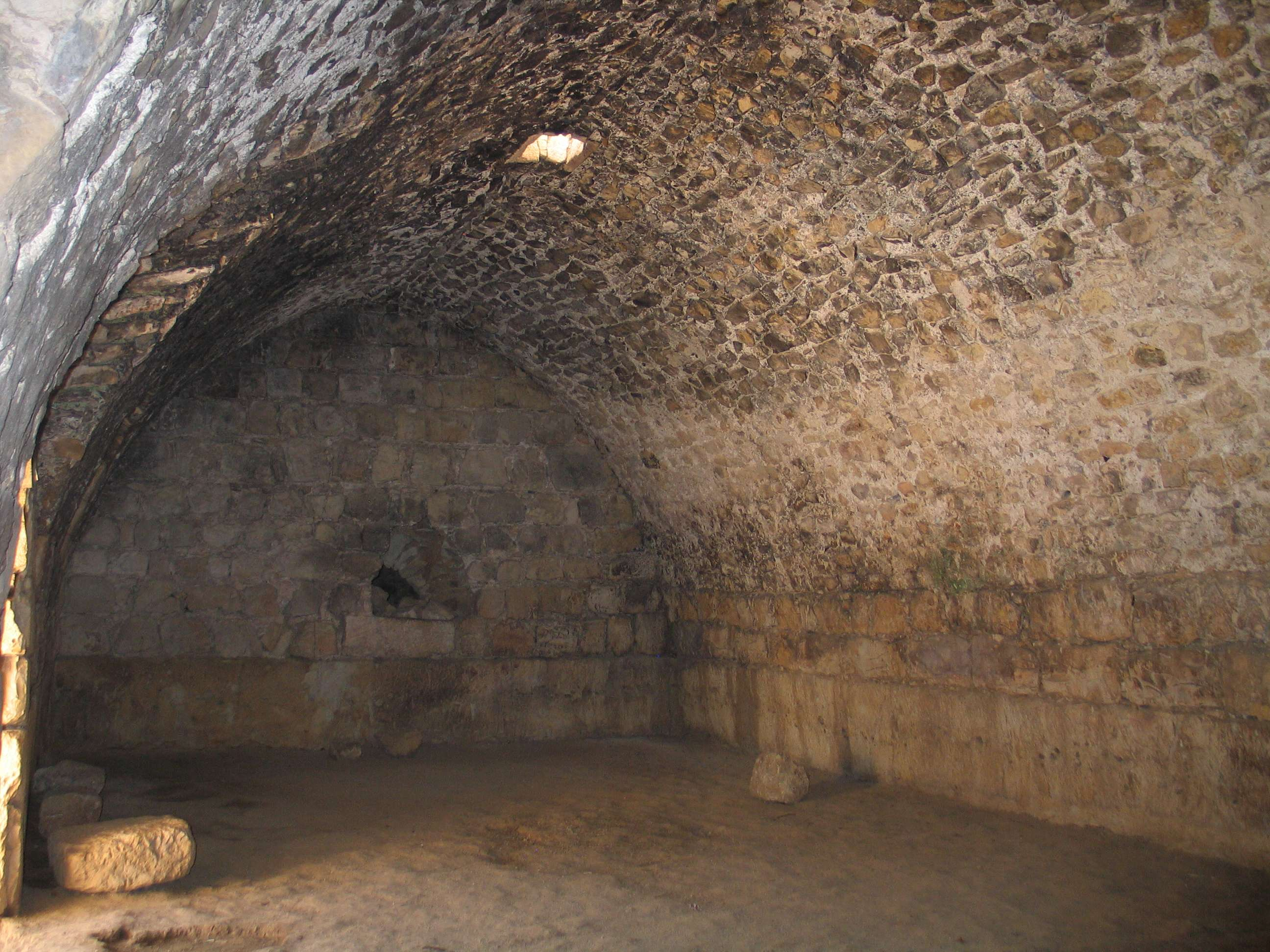 Ruins of a crusader structure (Aqua Bella) in Ein Hemed national park, Israel.